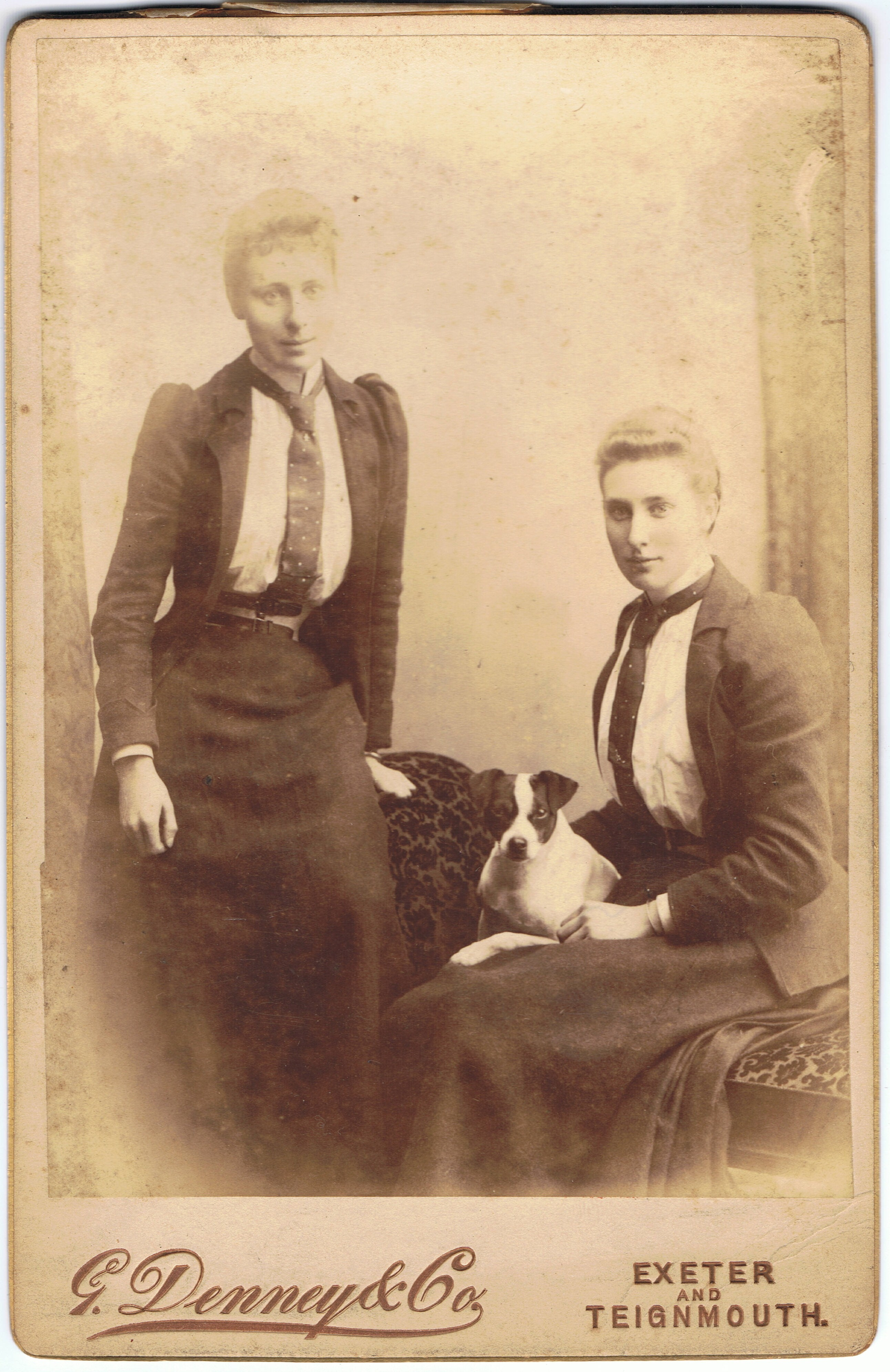 Kathleen & Sybil Garratt, Happy Christmas card to their great-uncle Willy, 1891. Scan (R. de Salis, October, 2007) of photo.Rodolph 17:34, 19 October 2007 (UTC)